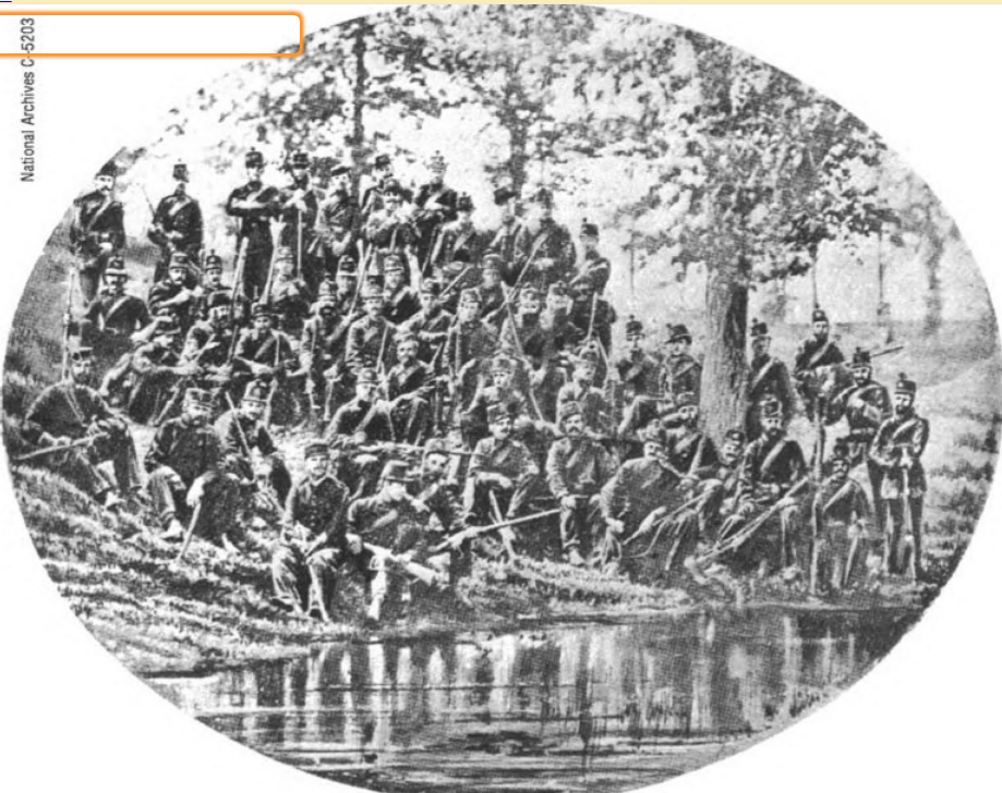 The fifth company of The Queen's Own Rifles - during the Battle of Ridgeway it was the only Company to use modern Spencer Repeating Rifles.